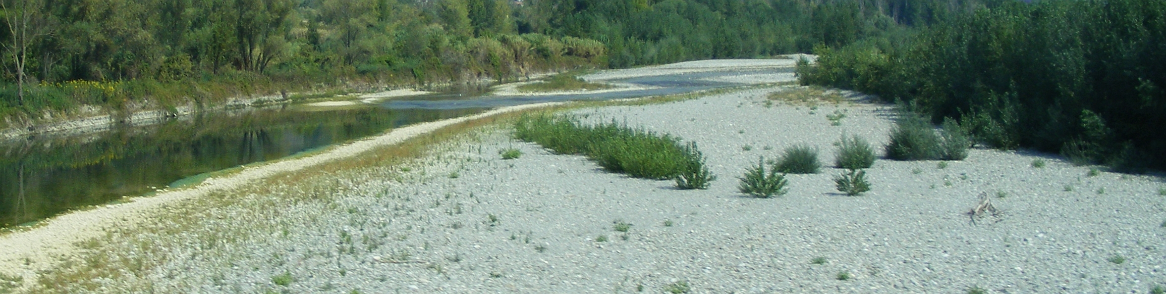 Magra river at A12 motorway bridge (Italy)